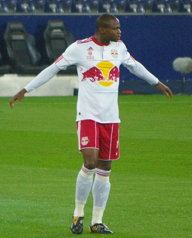 Defender FC Salzburg Match vs. SV Kapfenberg